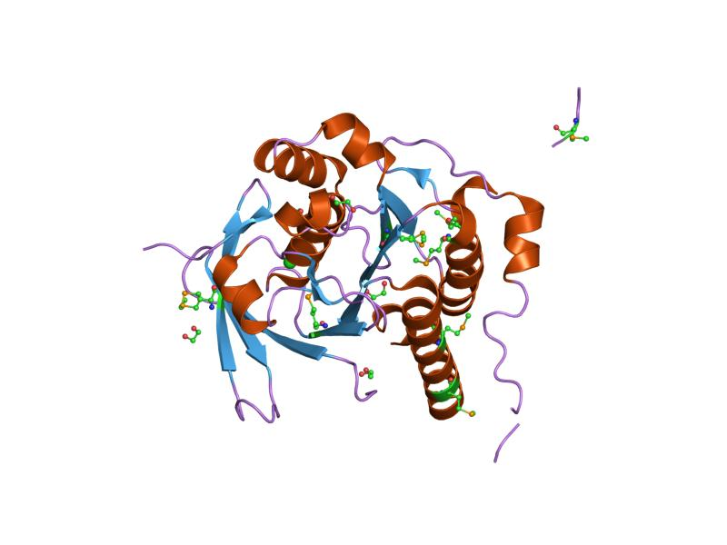 Cartoon representation of the molecular structure of protein registered with 1n0w code.